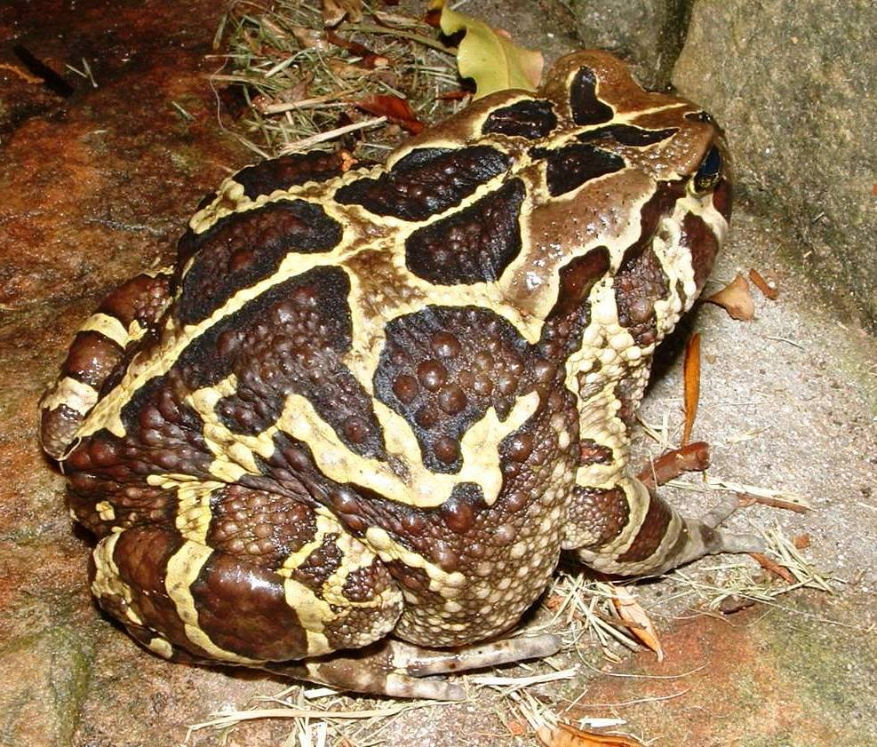 The Western Leopard Toad. Cape Town.